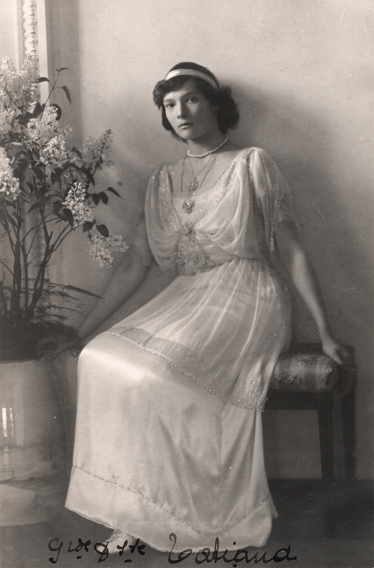 Grand Duchess Tatiana Nikolaevna (1897–1918)